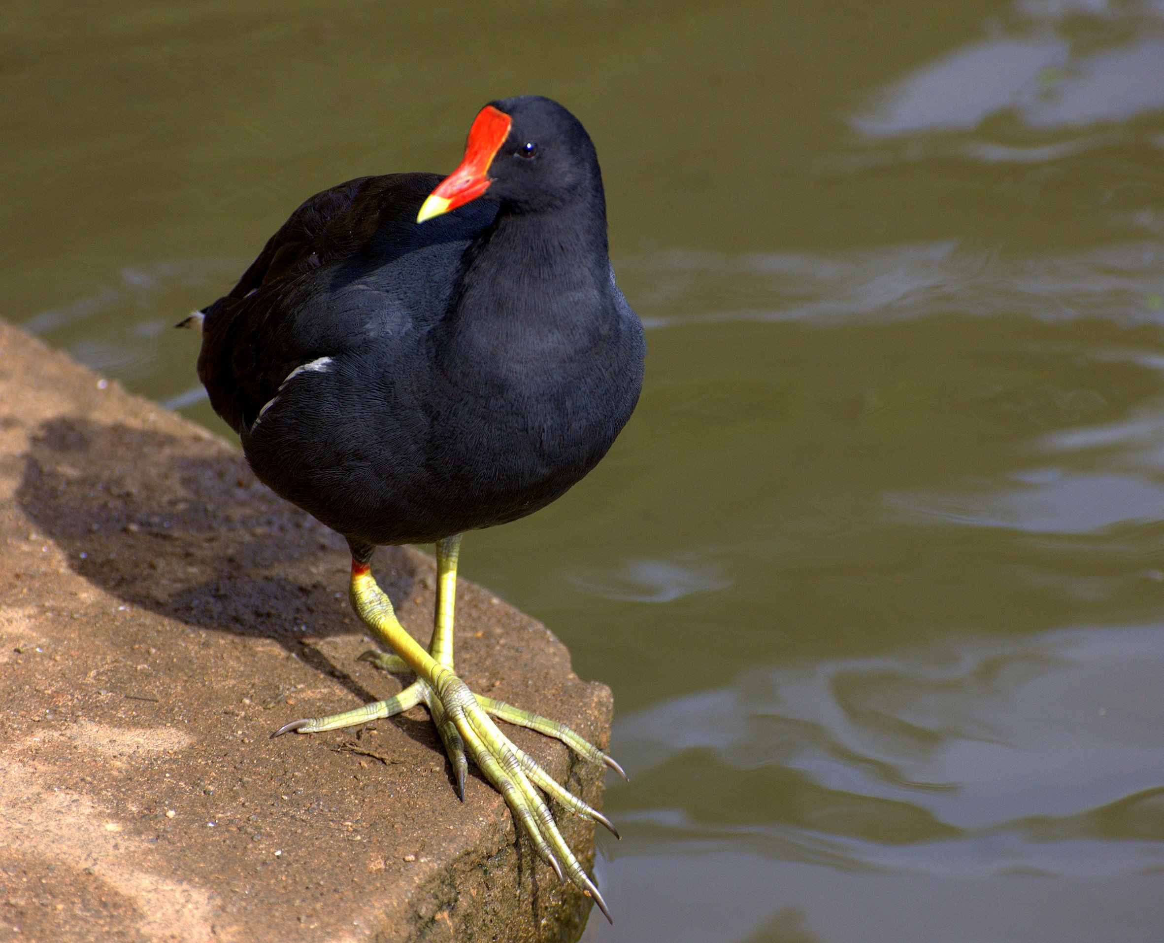 Common Gallinule in Horto Florestal de São Paulo, Brazil.